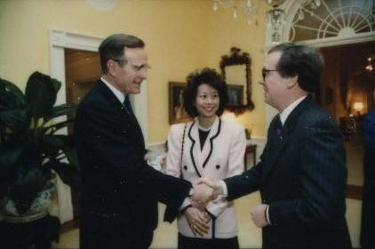 President George H. W. Bush and First Lady Barbara Bush hold a reception for Senators and Congressmen. Guests include Mitch McConnell, Elaine Chao, Harry Reid, Joe Lieberman, Pete Domenici, Boyden Graym and Boyd Hollingsworth